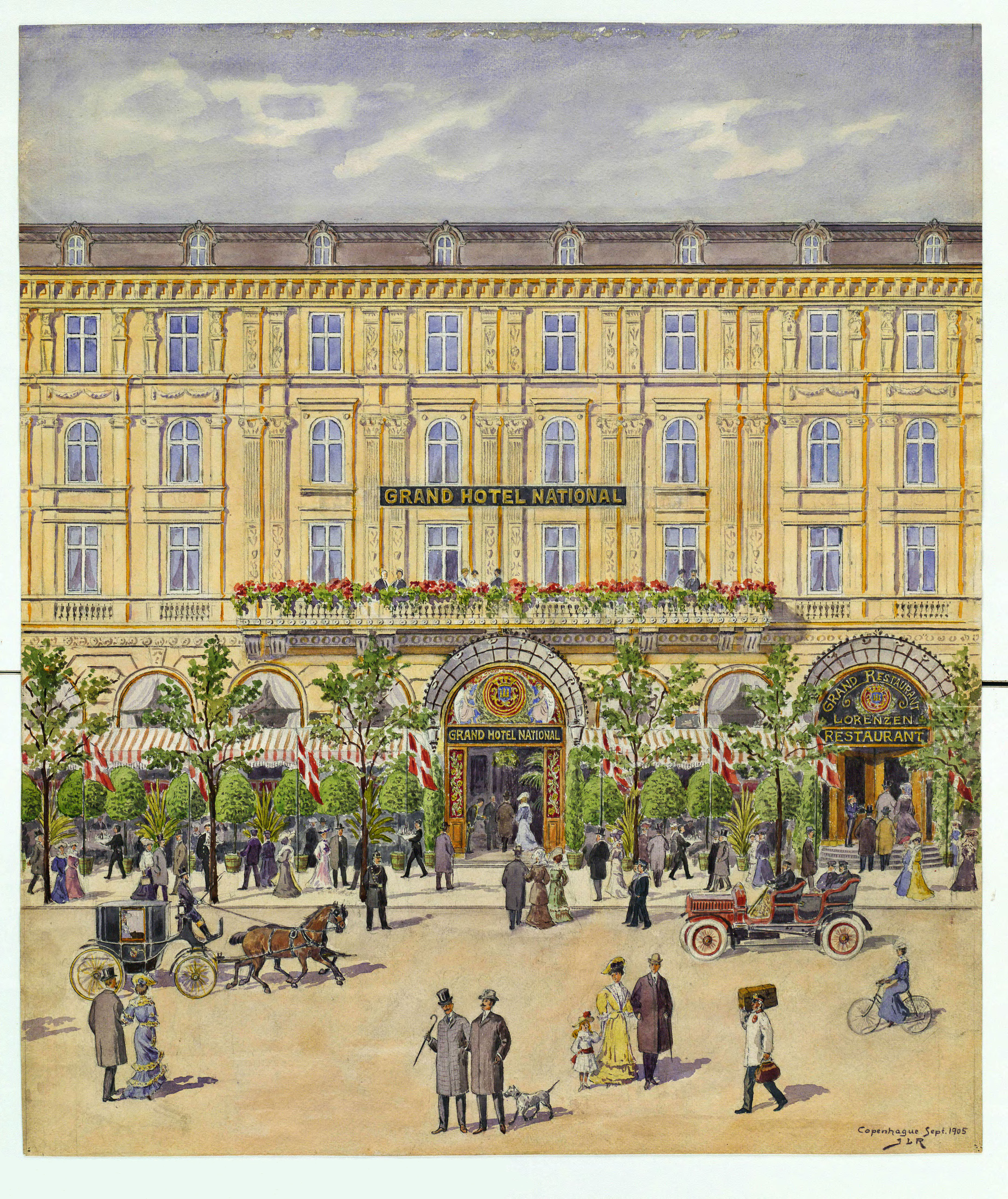 "Grand Hotel National, Copenhague, September 1905". The former hotel at Vesterbrogade 2E in Copenhagen, Denmark. The drawing is not faithful since the actual hotel only had 5 window bays, not 8. The facade has been demolished.